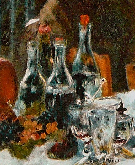 Detail of 'Le déjeuner des cannotiers'